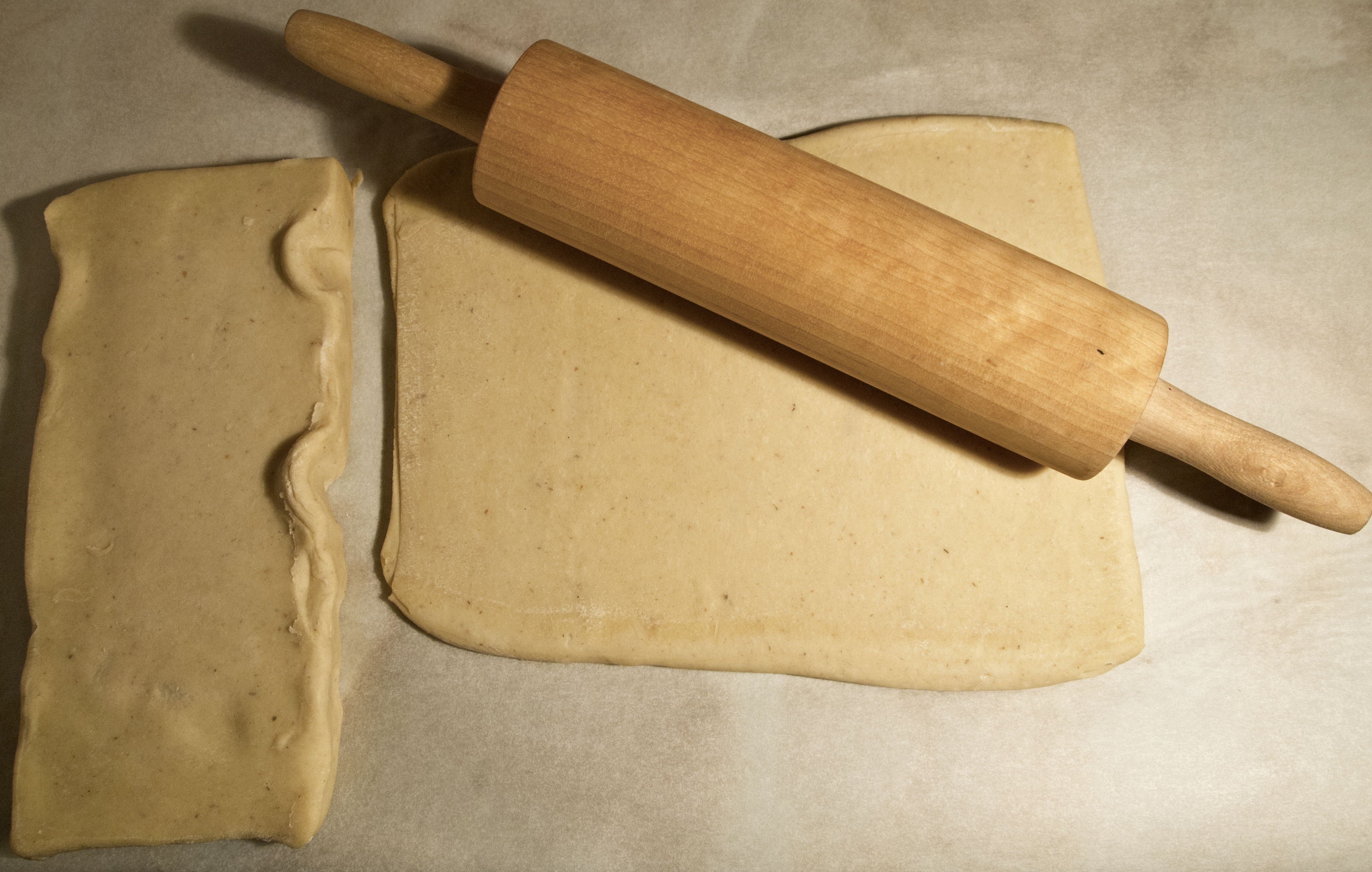 Puff pastry layers with rolling pin.